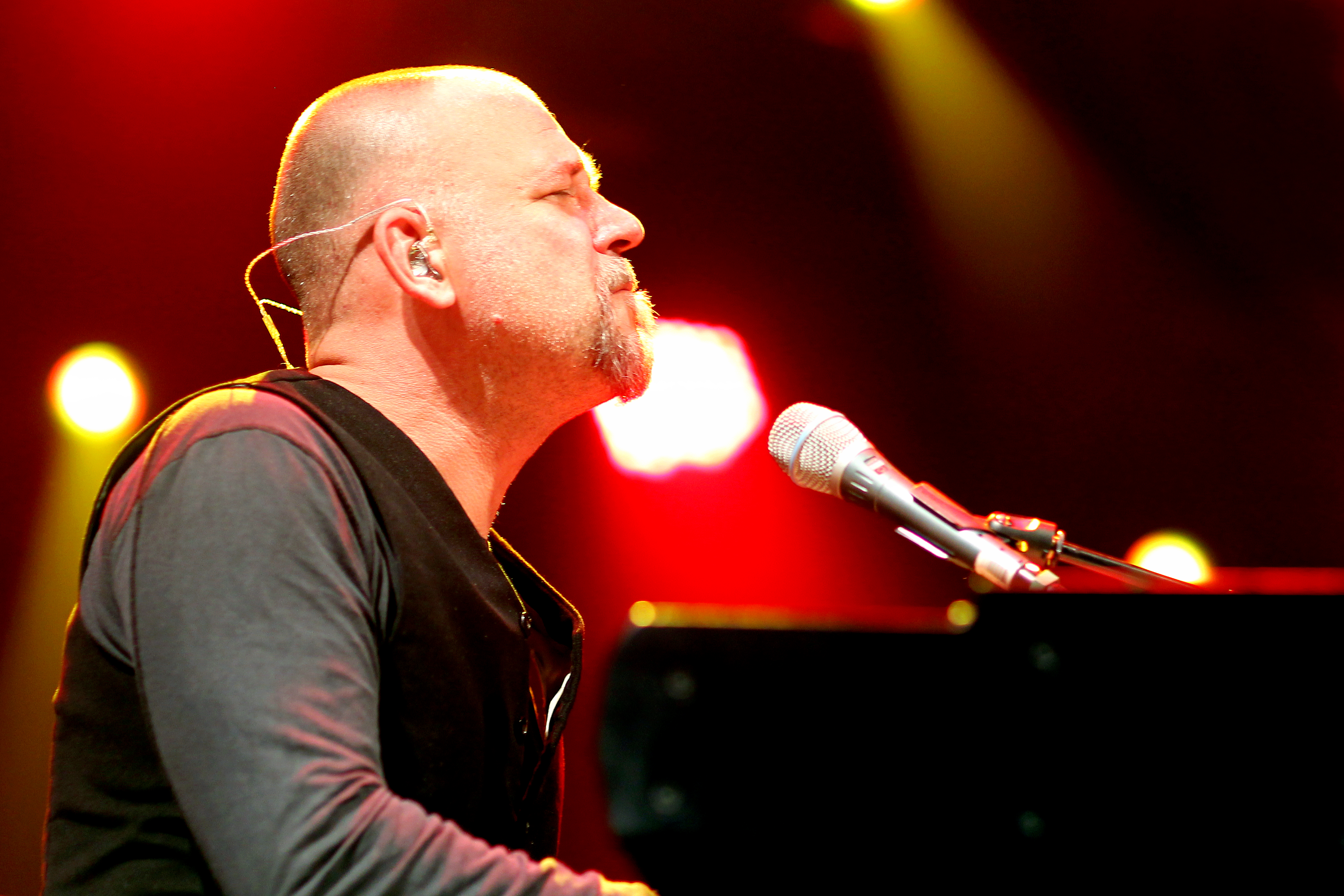 Die Liedermacher Schmidbauer & Kälberer mit Pippo Polina auf dem Sommertollwood–Festival 2018 in München; Spielstätte Musik-Arena The Singer-Songwriter Schmidbauer & Kälberer mit Pippo Polina at Sommertollwood–Festival 2018 in Munich; Venue Musik-Arena